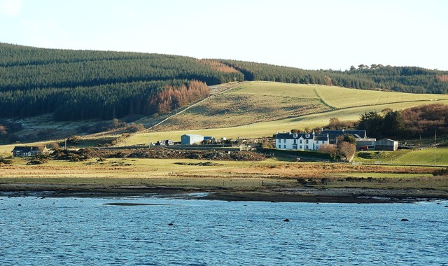 Loup House Viewed from the Islay ferry on a bright but chilly February day.